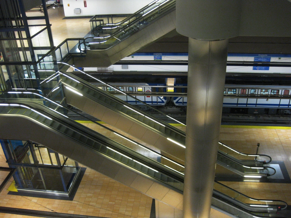 The Metro Station Puerta del Sol in Madrid. It opened in July 2009.